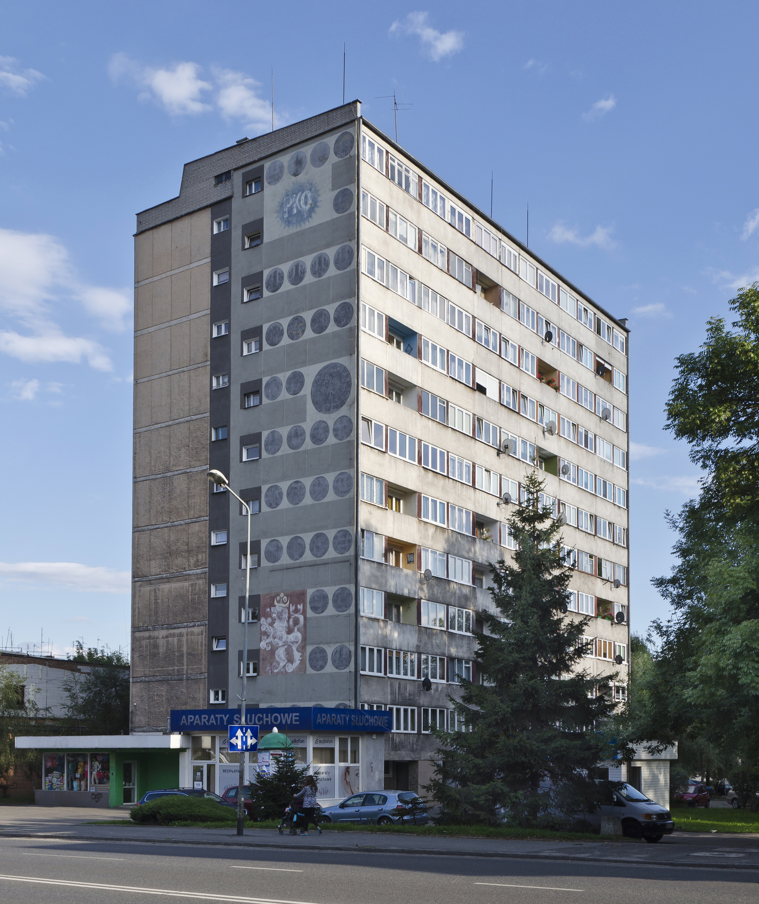 Dunikowskiego Street in Kłodzko